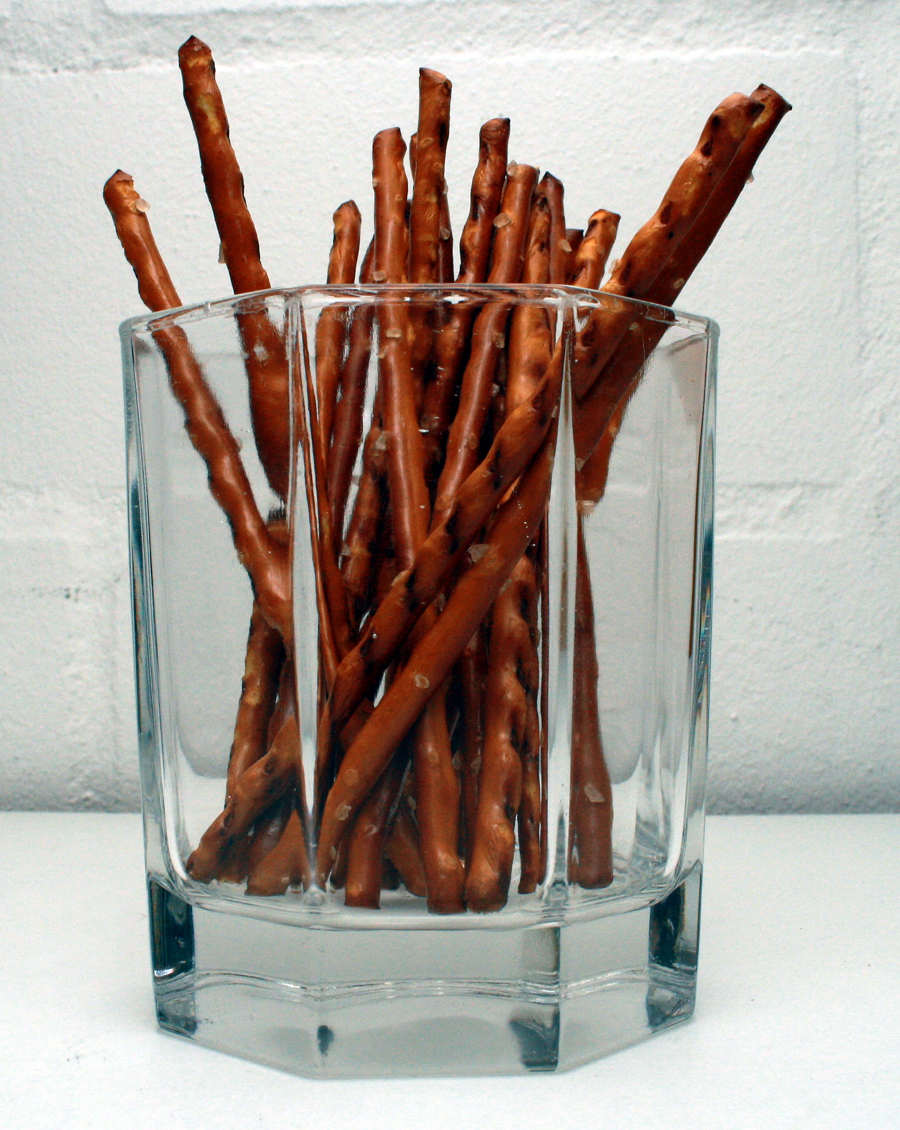 pretzel sticks